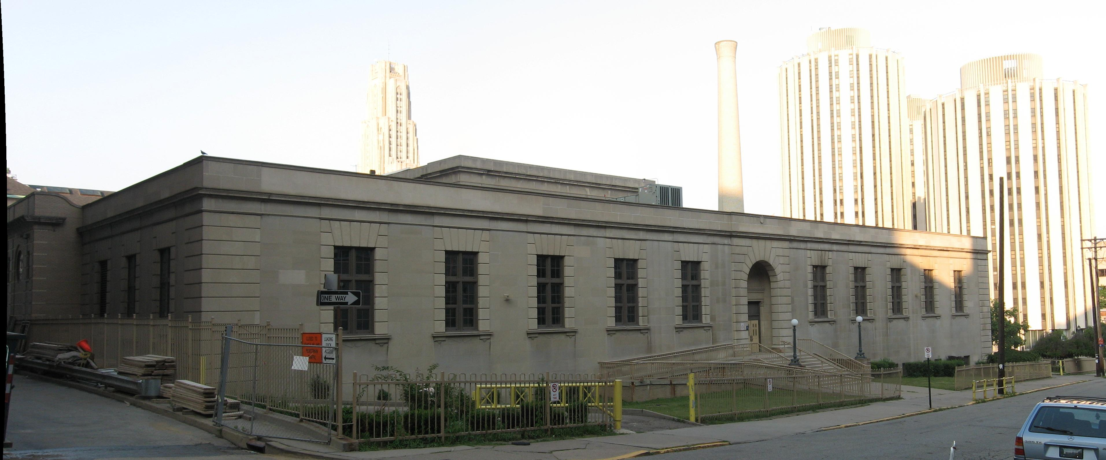 The Pittsburgh Science and Technology Academy (formerly the Frick International Studies Academy). Sitting in the midsts of the University of Pittsburgh's campus, the University's Cathedral of Learning and Litchfield Towers can be seen in the background behind the Frick Academy.